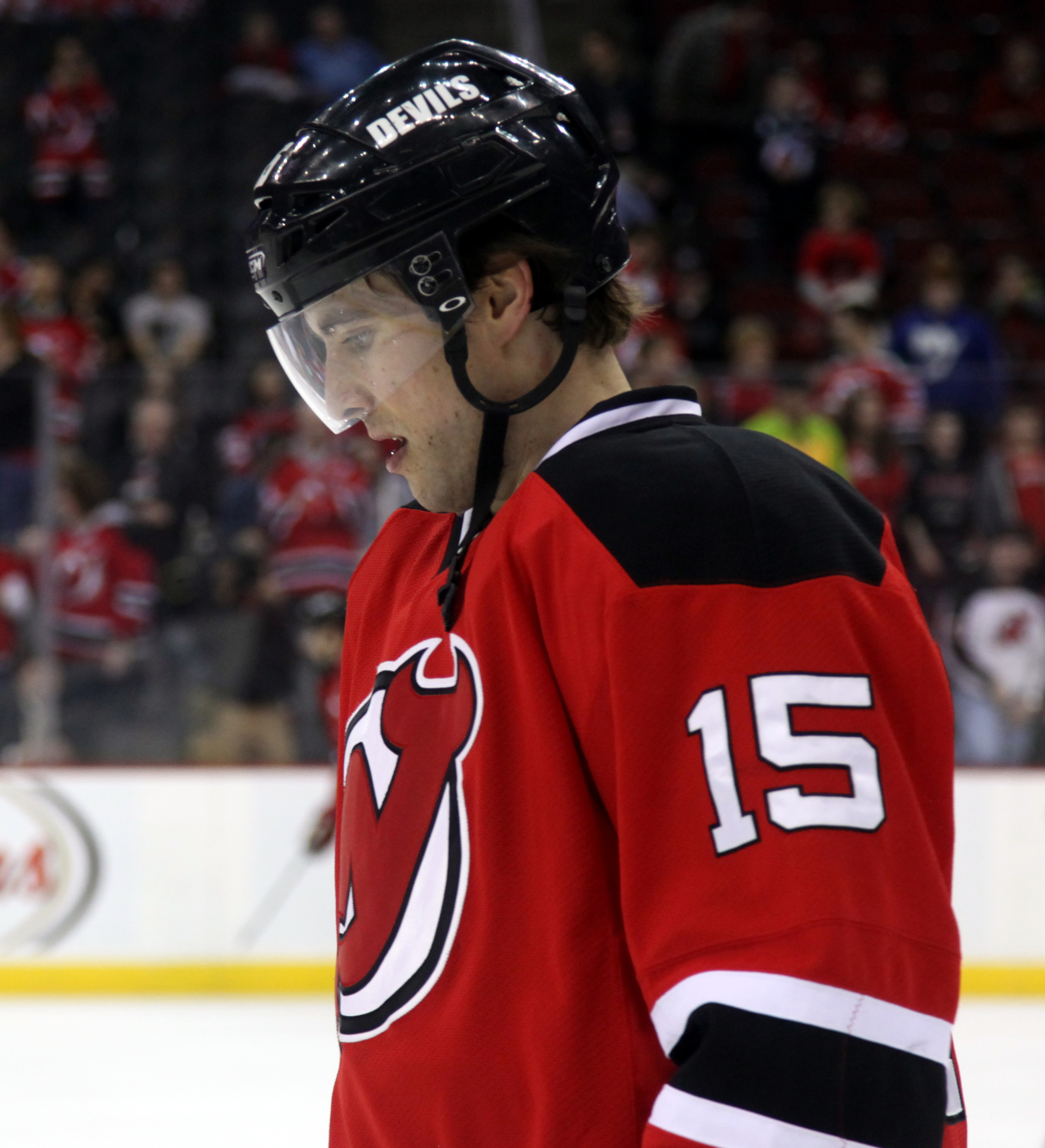 Tuomo Ruutu as a member of the New Jersey Devils.